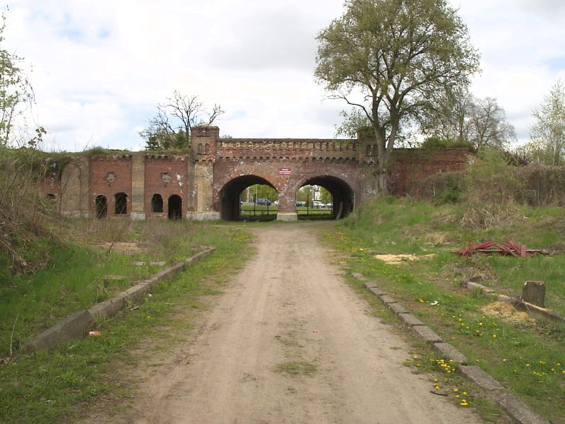 Berlin Gate - Kostrzyn nad Odrą, Poland